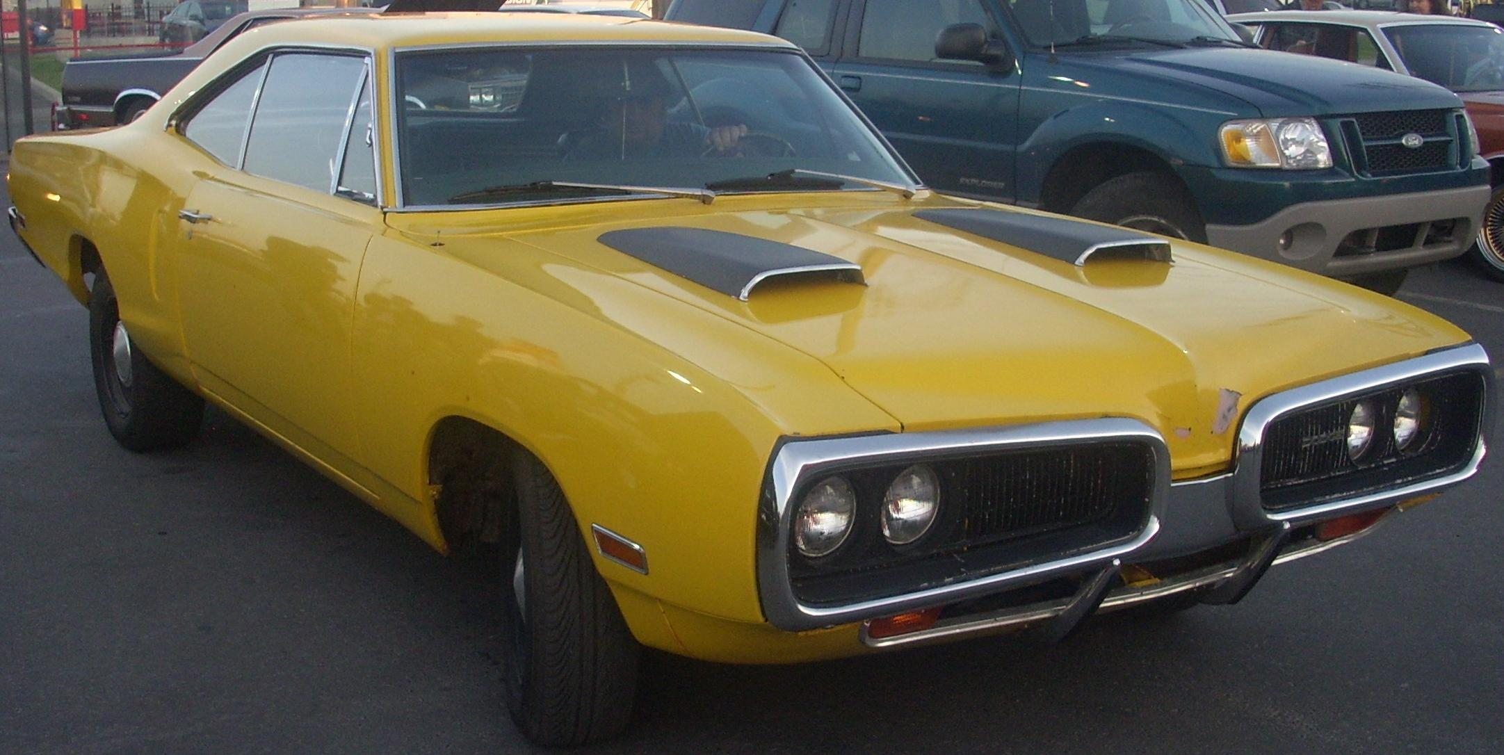 1970 Dodge Super Bee photographed in Montreal, Quebec, Canada at Gibeau Orange Julep.